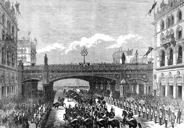 A royal procession under the Holborn Viaduct from the Illustrated London News (1869). The paper referred to the structure as the "Holborn Valley Viaduct".